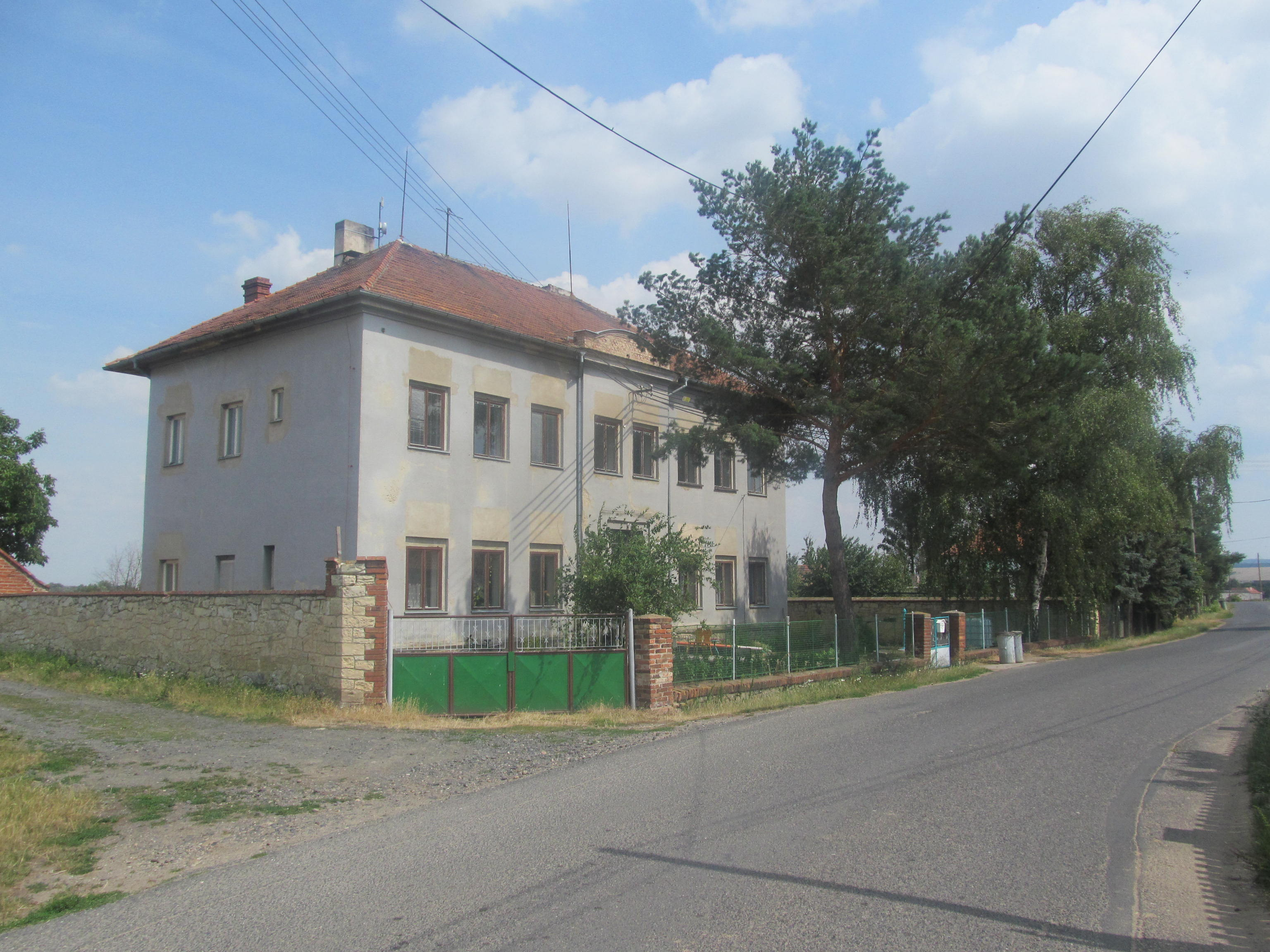 Former school in Hradiště